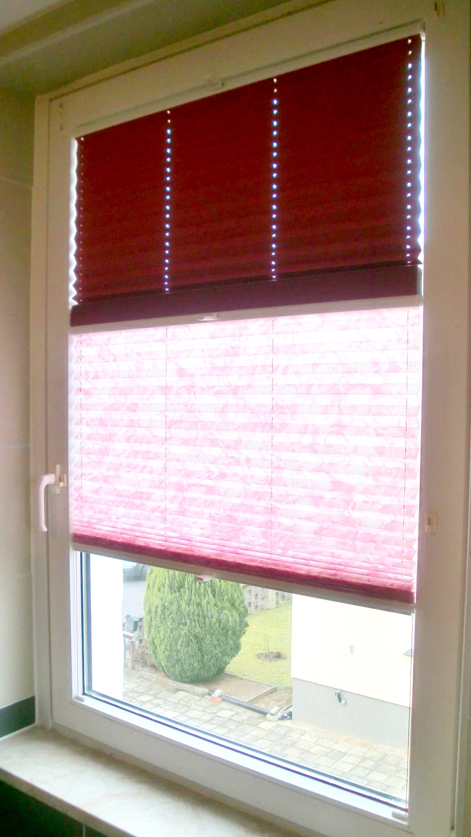 Pleated blind, Cosiflor, producer: Meiwi-Jalousien, Germany, Saxony-Anhalt, Hohendodeleben